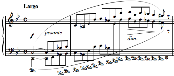 Excerpt from Chopin's Ballade Op. 23